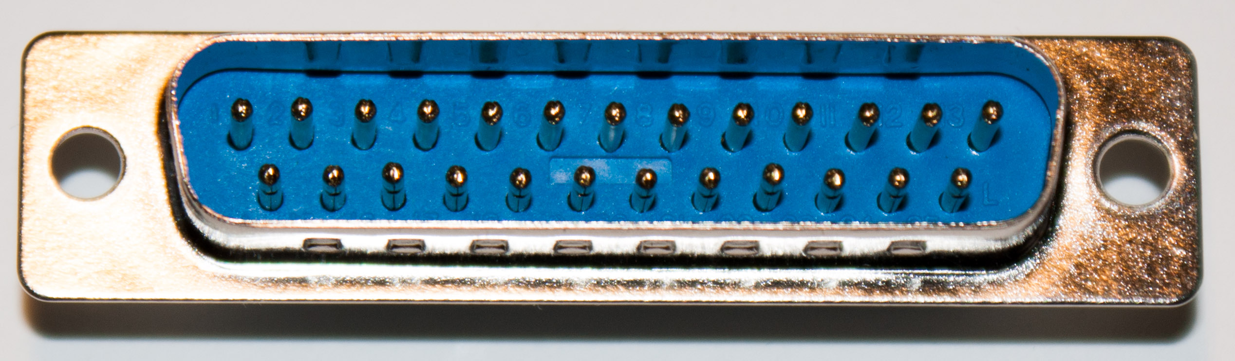 DB-25 connector